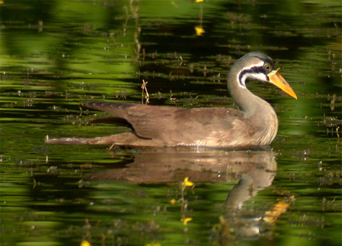 Masked Finfoot (Heliopais personatus)